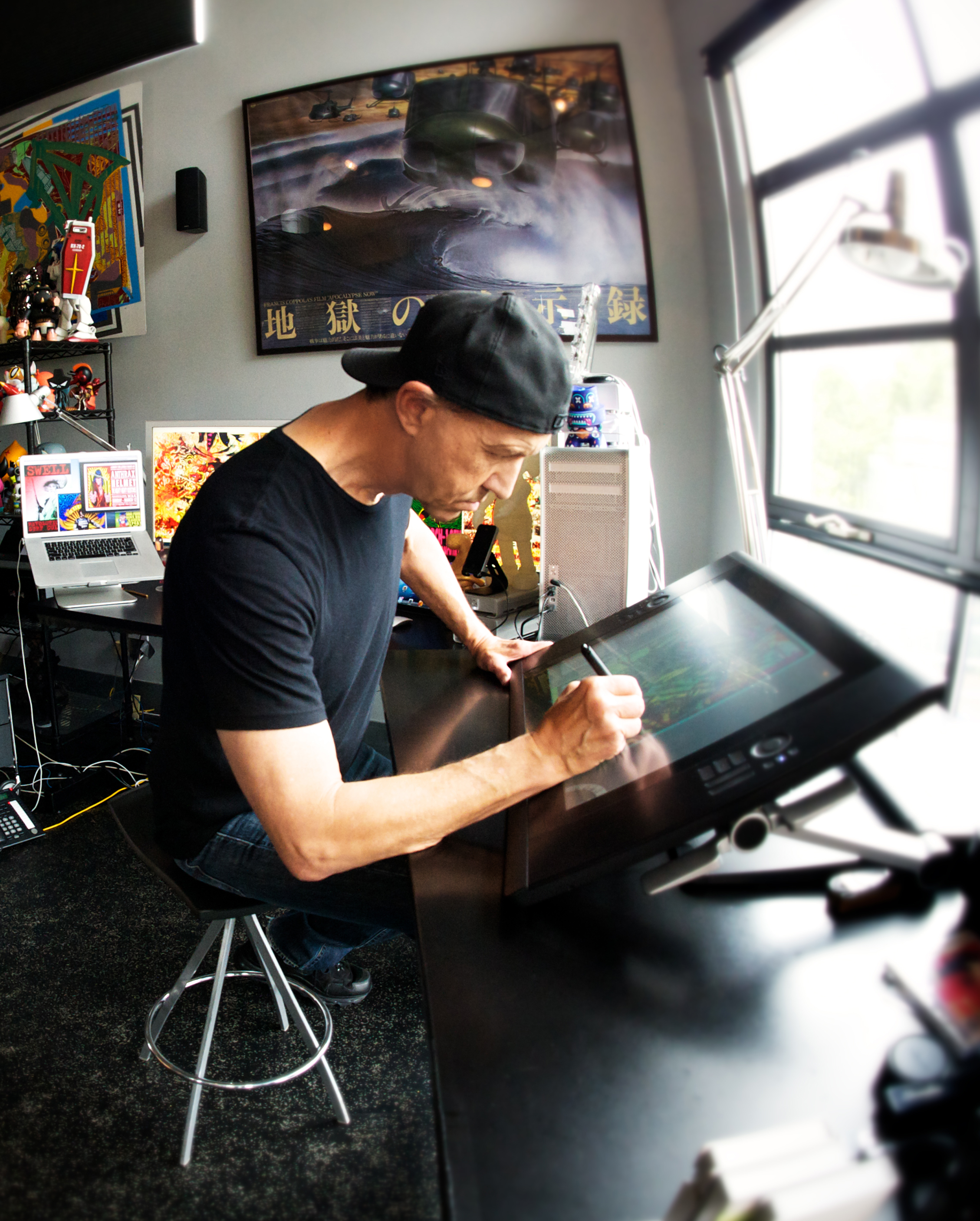 Jim Evans working at his tablet